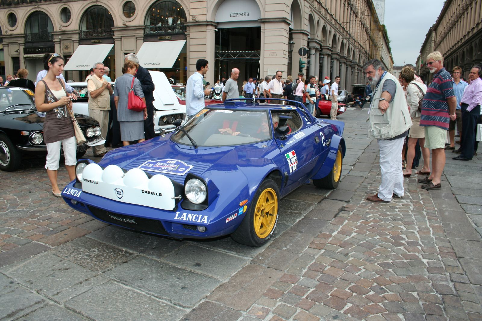 Lancia Stratos HF at the Lancia centenary celebrations in Turin in 2006.